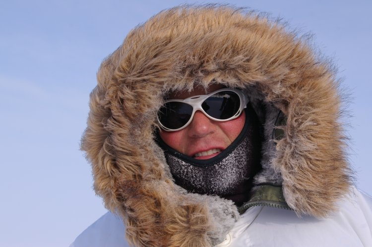 Richard Dean Anderson in the Arctic filming Stargate Continuum in early 2007.